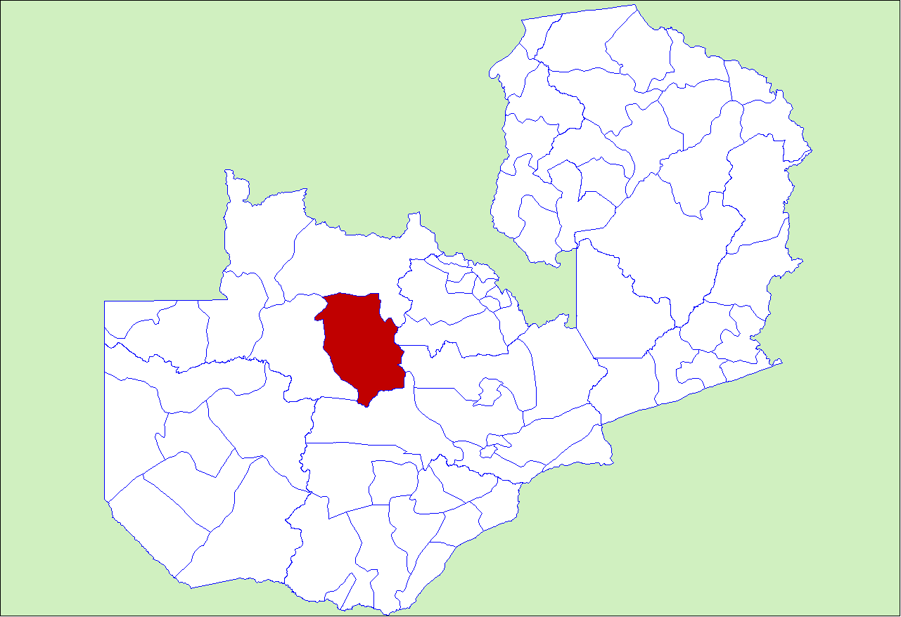 District locator in Zambia